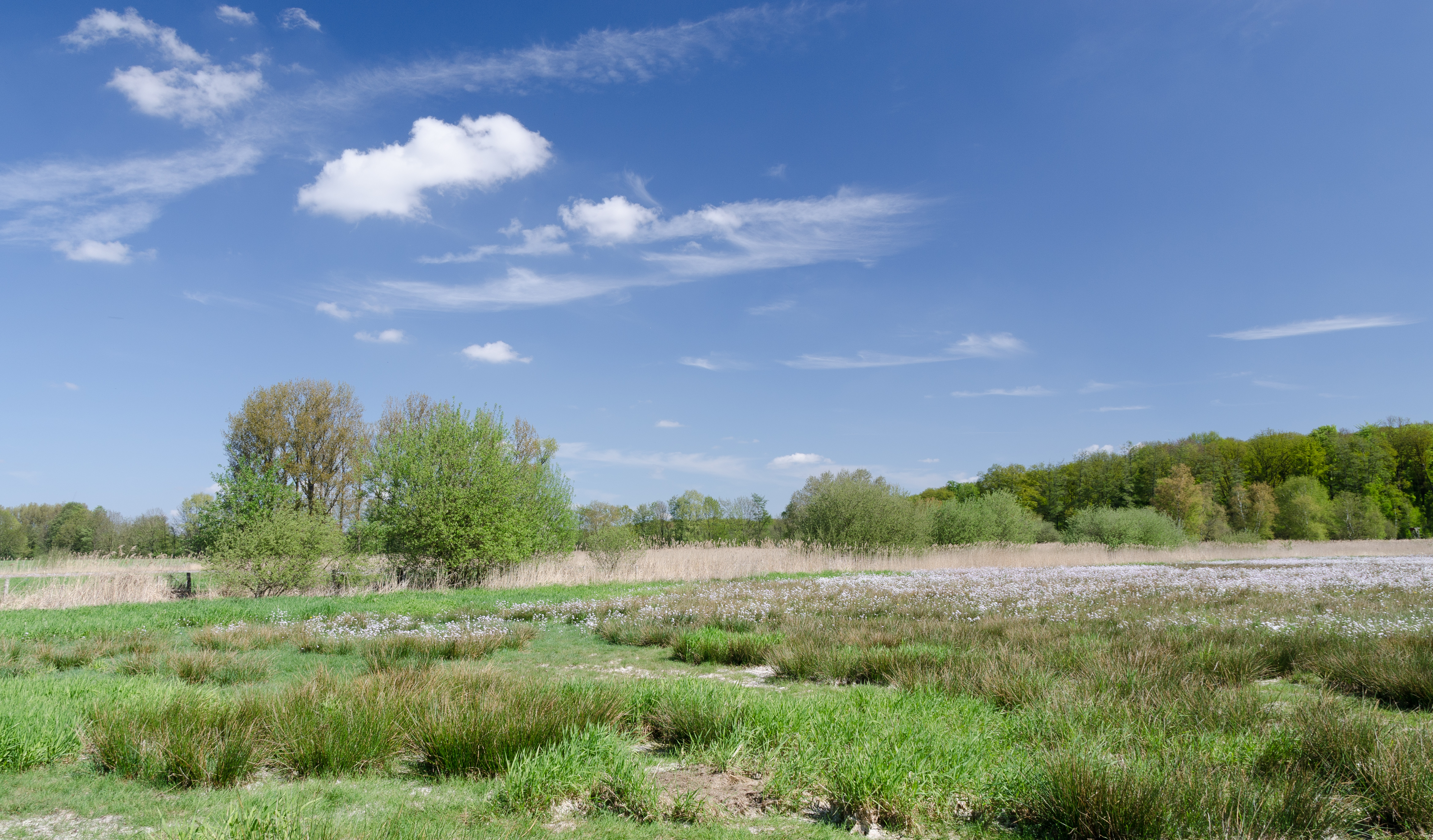 Nature park Schwalm-Nette - landscape